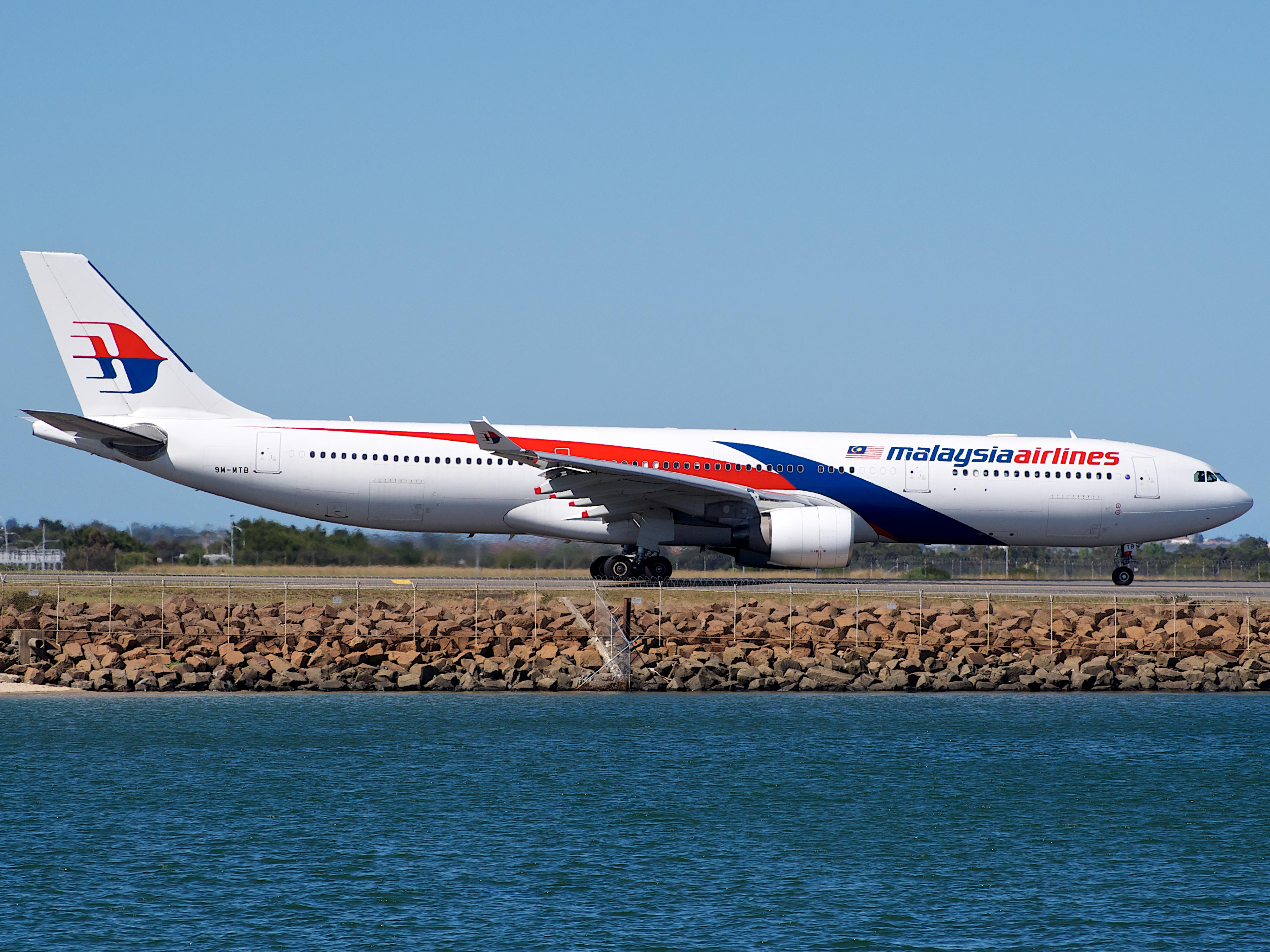 9M-MTB | A330-323X | Malaysia Airlines | SYD